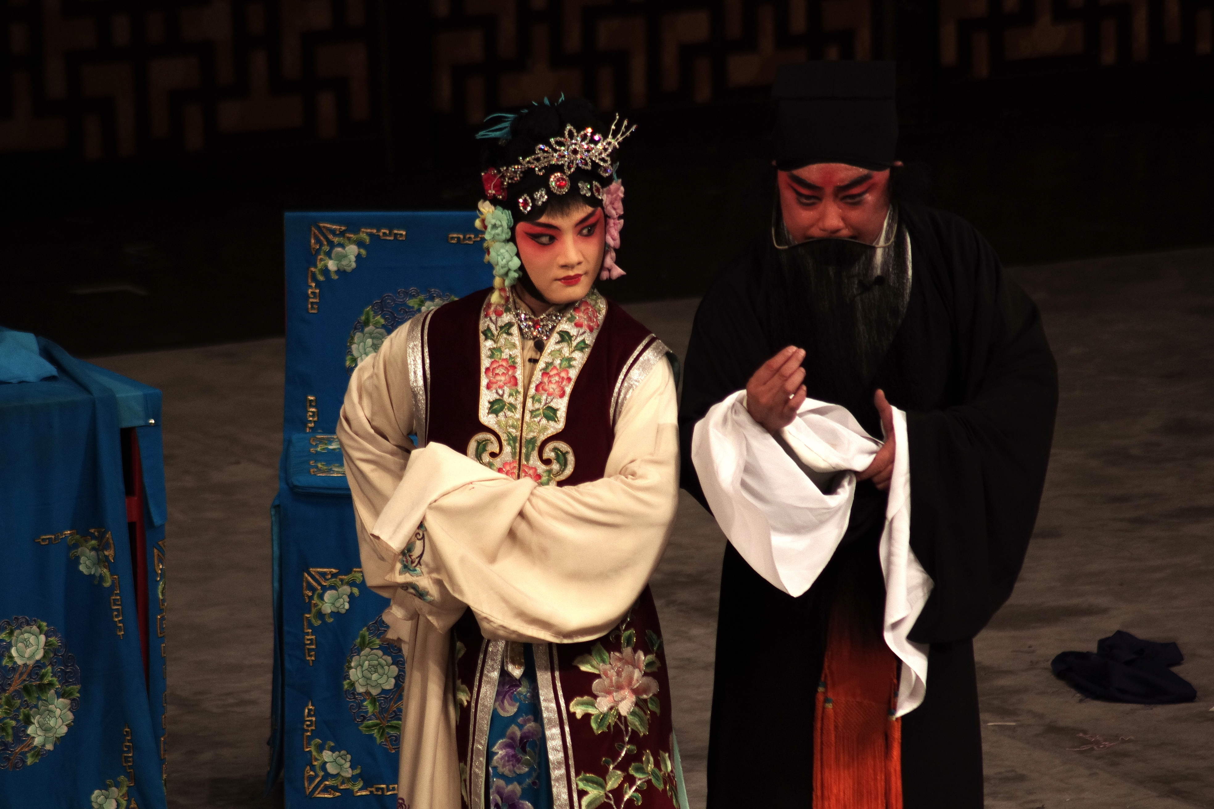 A Peking opera performance in Tianchan Theatre starring Yao Zhongwen (姚中文) as Song Jiang